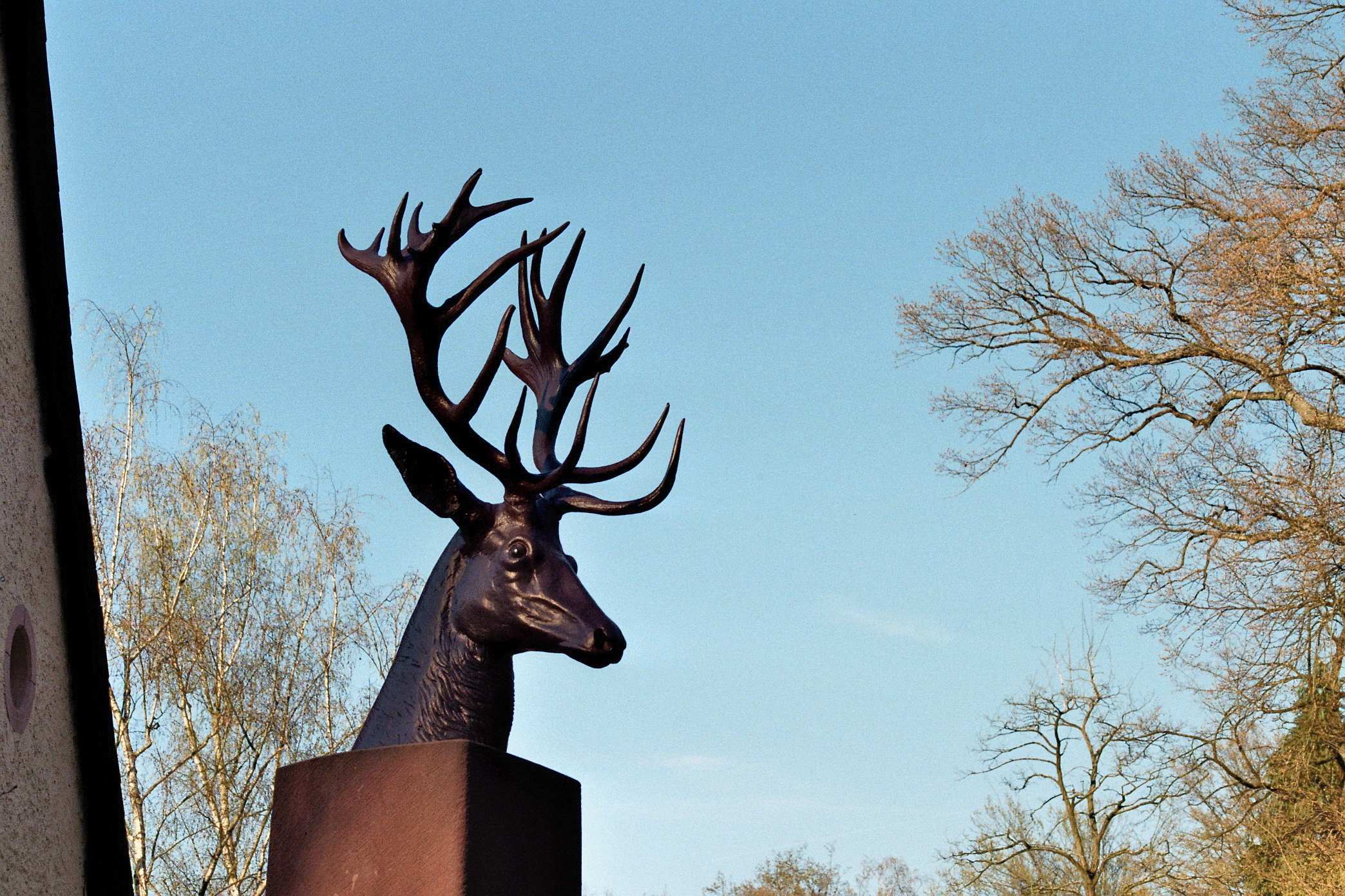 Bronze sculpture of a stag head in Fasanerie Park in Aschaffenburg, Bavaria/Germany